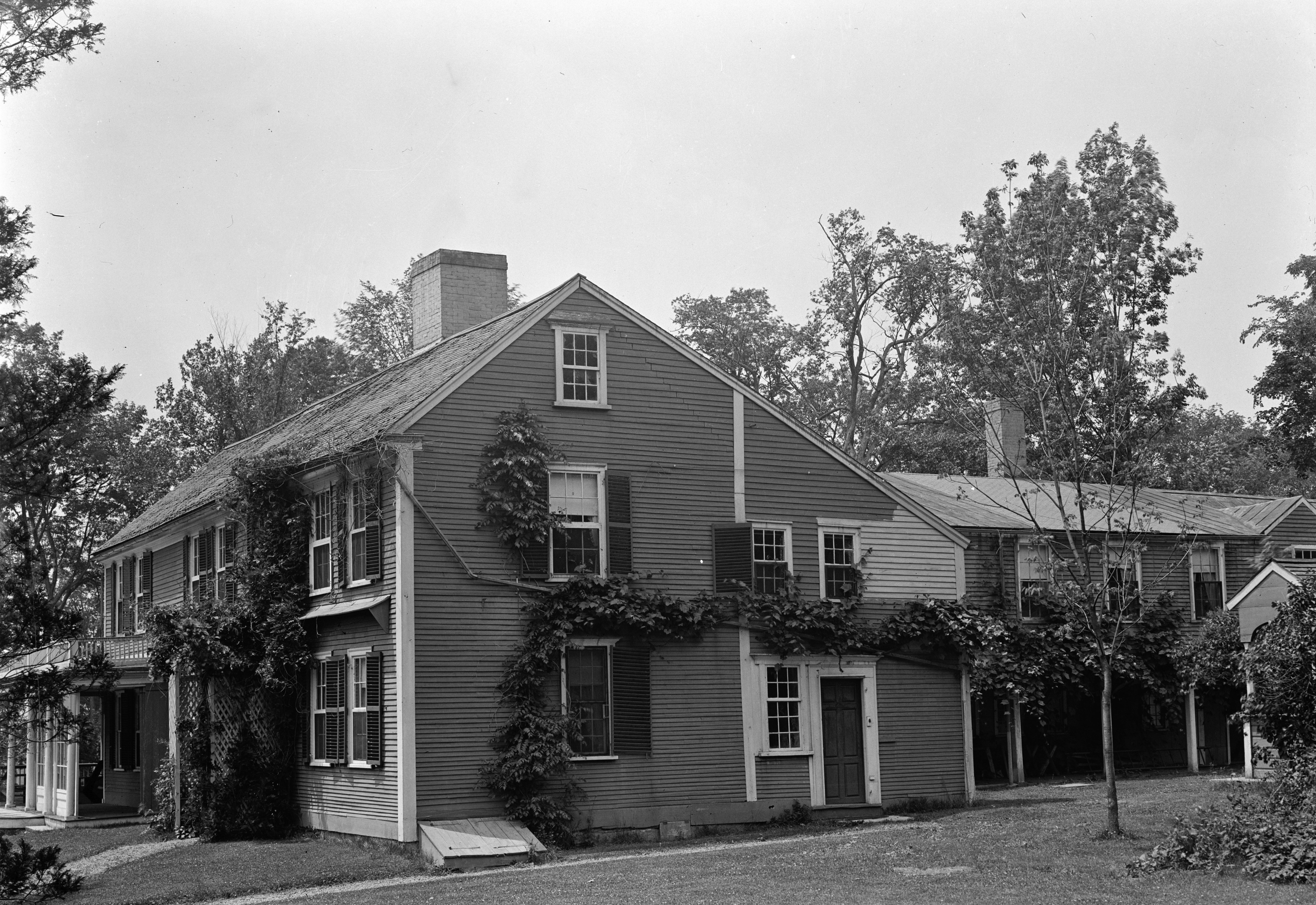 Colonel William Prescott House, Pepperell, Middlesex County, MA. EXT.-SIDE & FRONT, LOOKING WEST. June 18, 1941. Photographer: Frank O. Branzetti. Repository: Library of Congress, Prints and Photograph Division, Washington, D.C. 20540 USA. Public Domain.